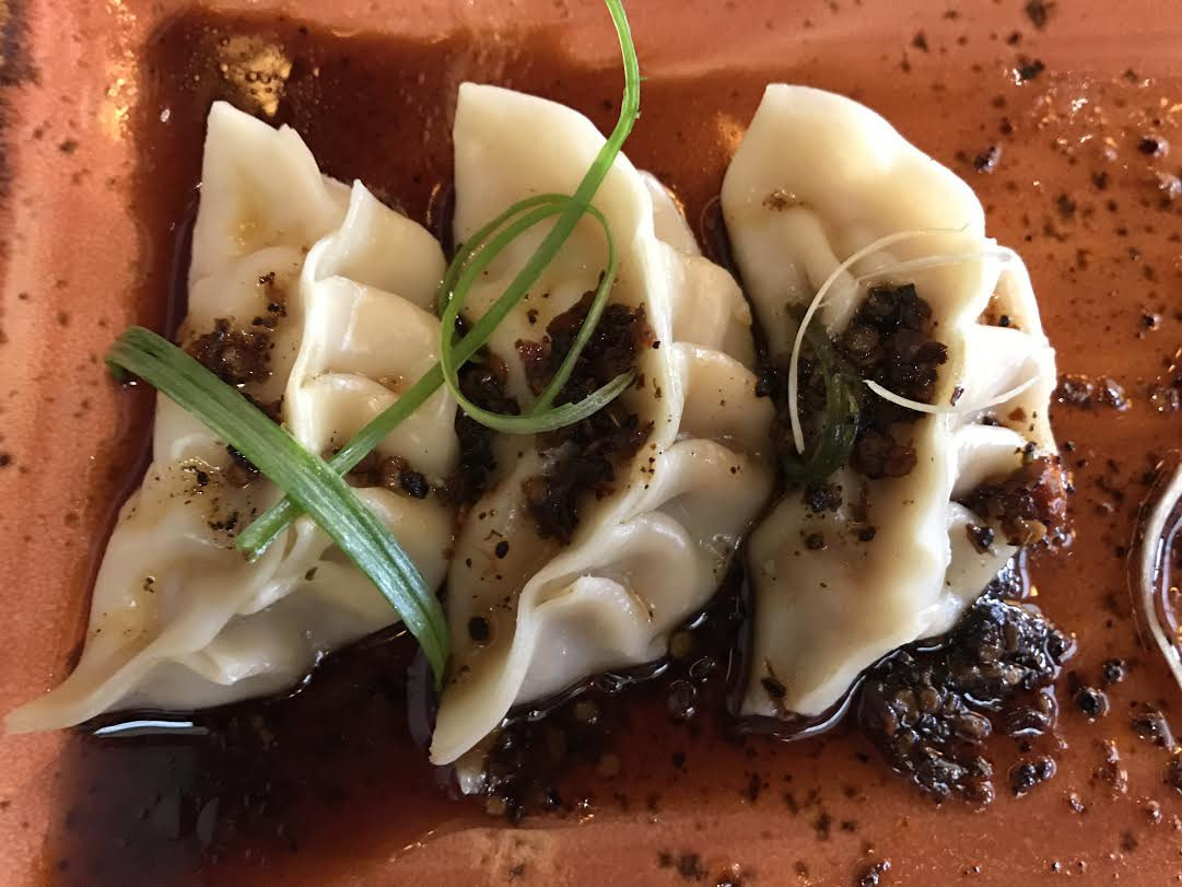 Chinese dumpling